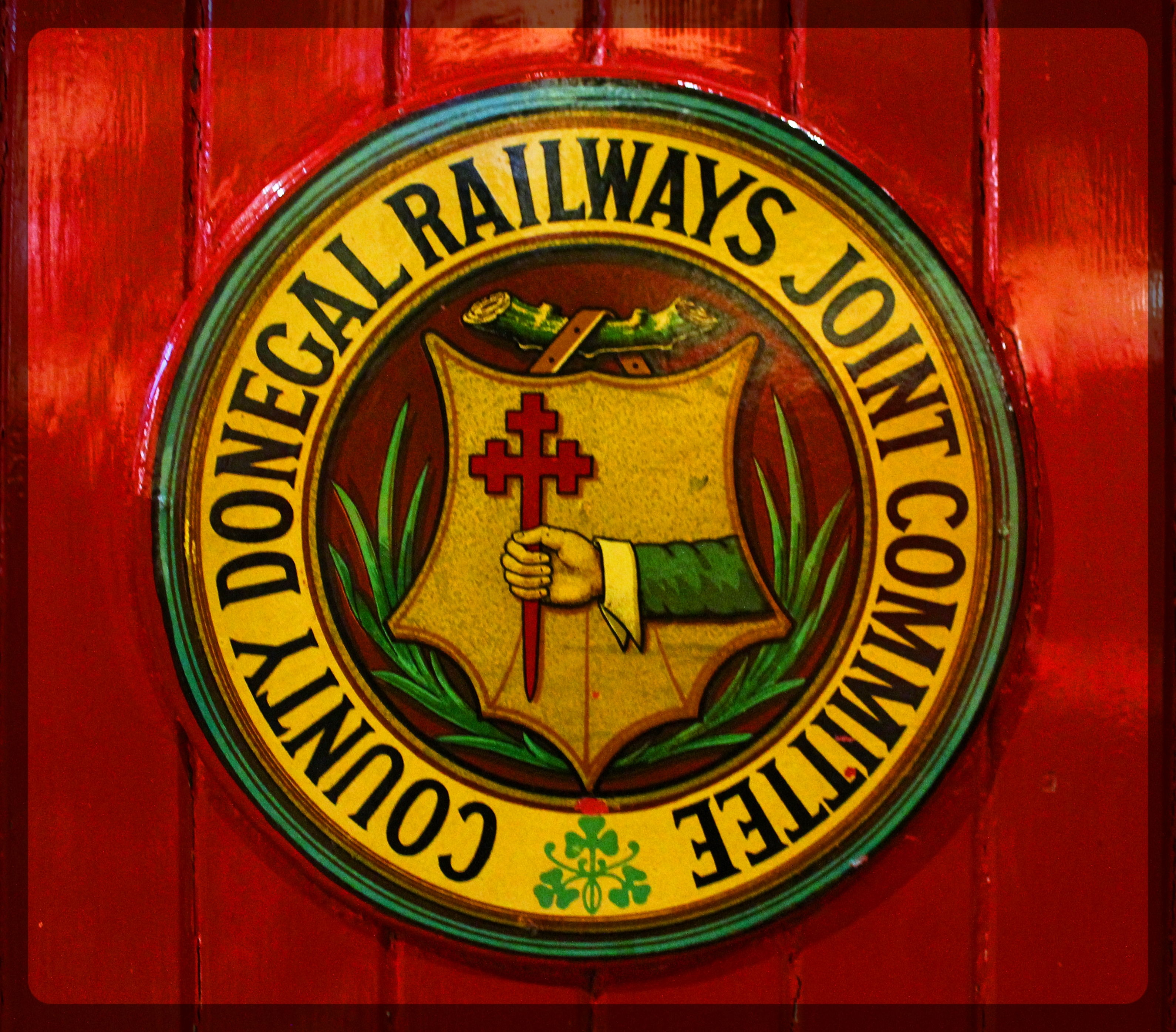 CDR Crest